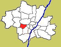 Municipality 25 "Laim", Situation in Munich, Bavaria